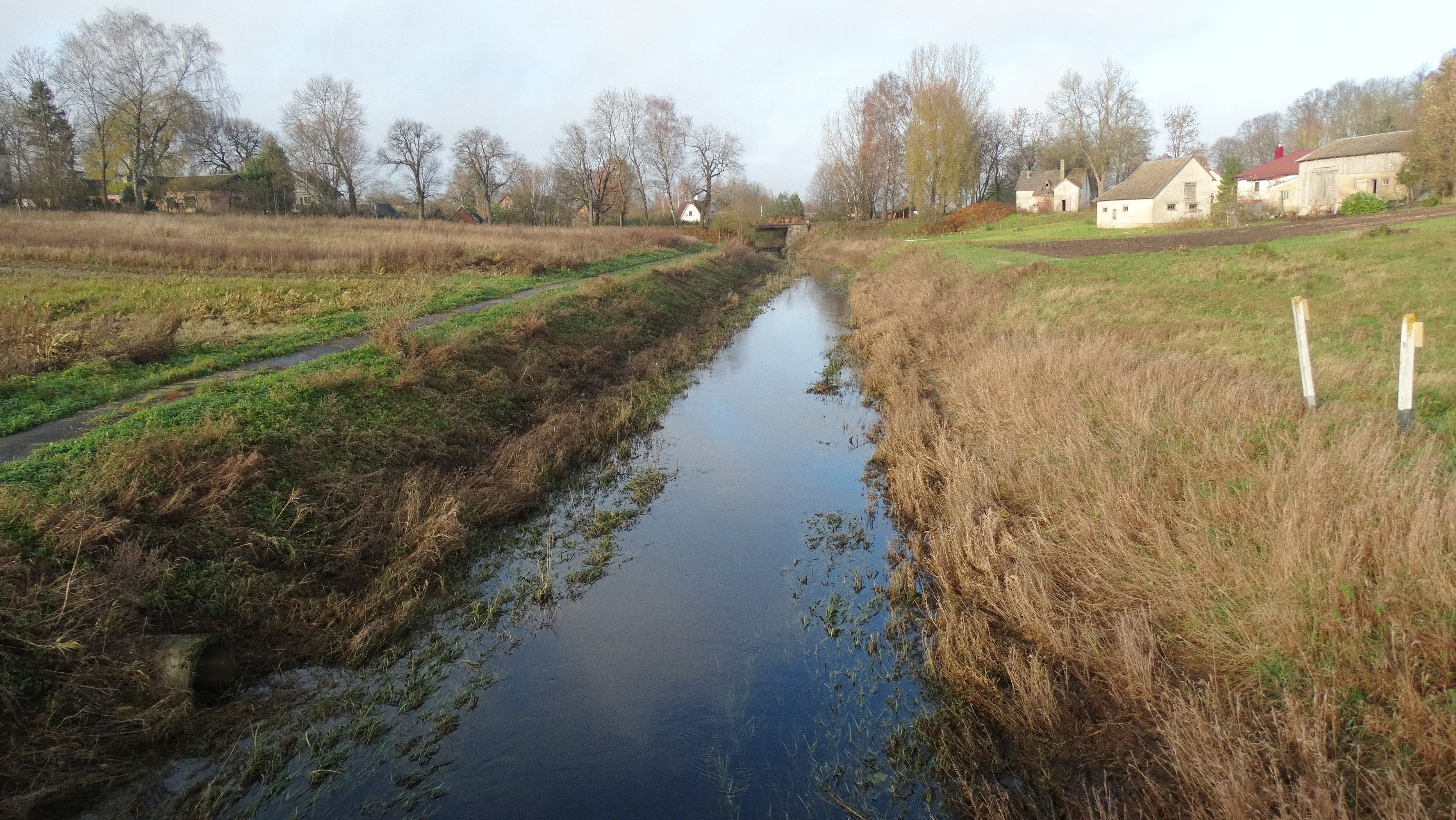 Piktupė River, Piktupėnai, Pagėgiai Municipality, Lithuania